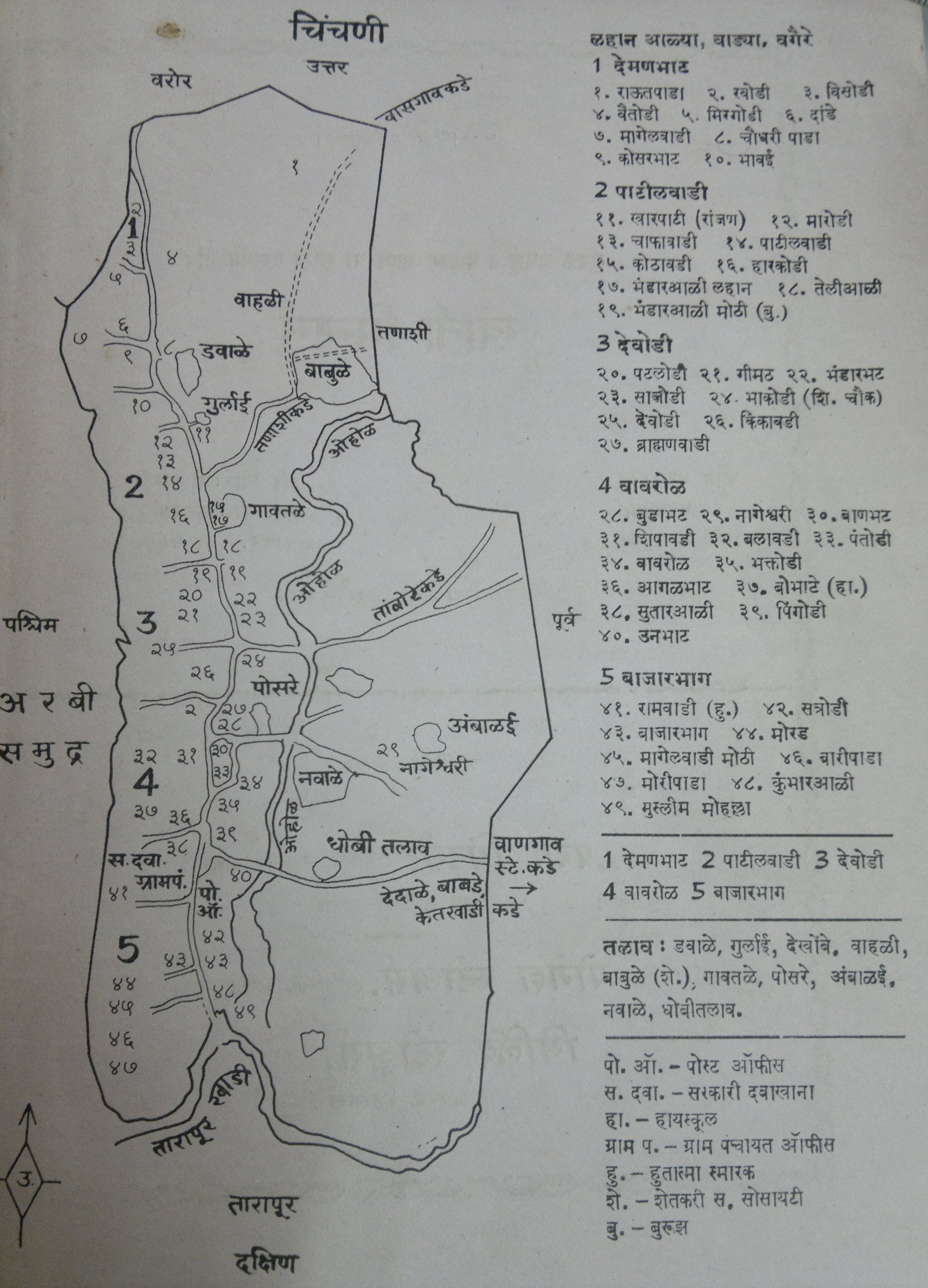 Mr. B. Save made a survey about the Somavanshi Kshatriya Samaj (Vadval) in the village of Chinchani and published the book कुटुंबीय वंशावळी (Kutumbiya Vanshawali), about the people and history of the Somavanshi People in Chinchani. The schematic map of the village is posted here.